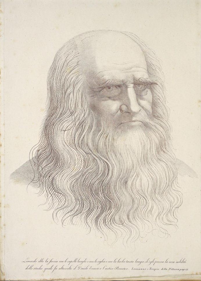 Imaginary Portrait of Leonardo, created from a testimony (and not a drawing) written by Giovanni Paolo Lomazzo in his essay, Idea del tempio della pittura (1590). The engraving is made by G. Benaglia, or C. Longhi or F. Rosaspina. Etching (or lithography ?) located as a frontispice from the volume IV of Giuseppe Bossi, Del Cenacolo di Leonardo da Vinci, published in Milano by the Royal Press (Stamperia Reale).